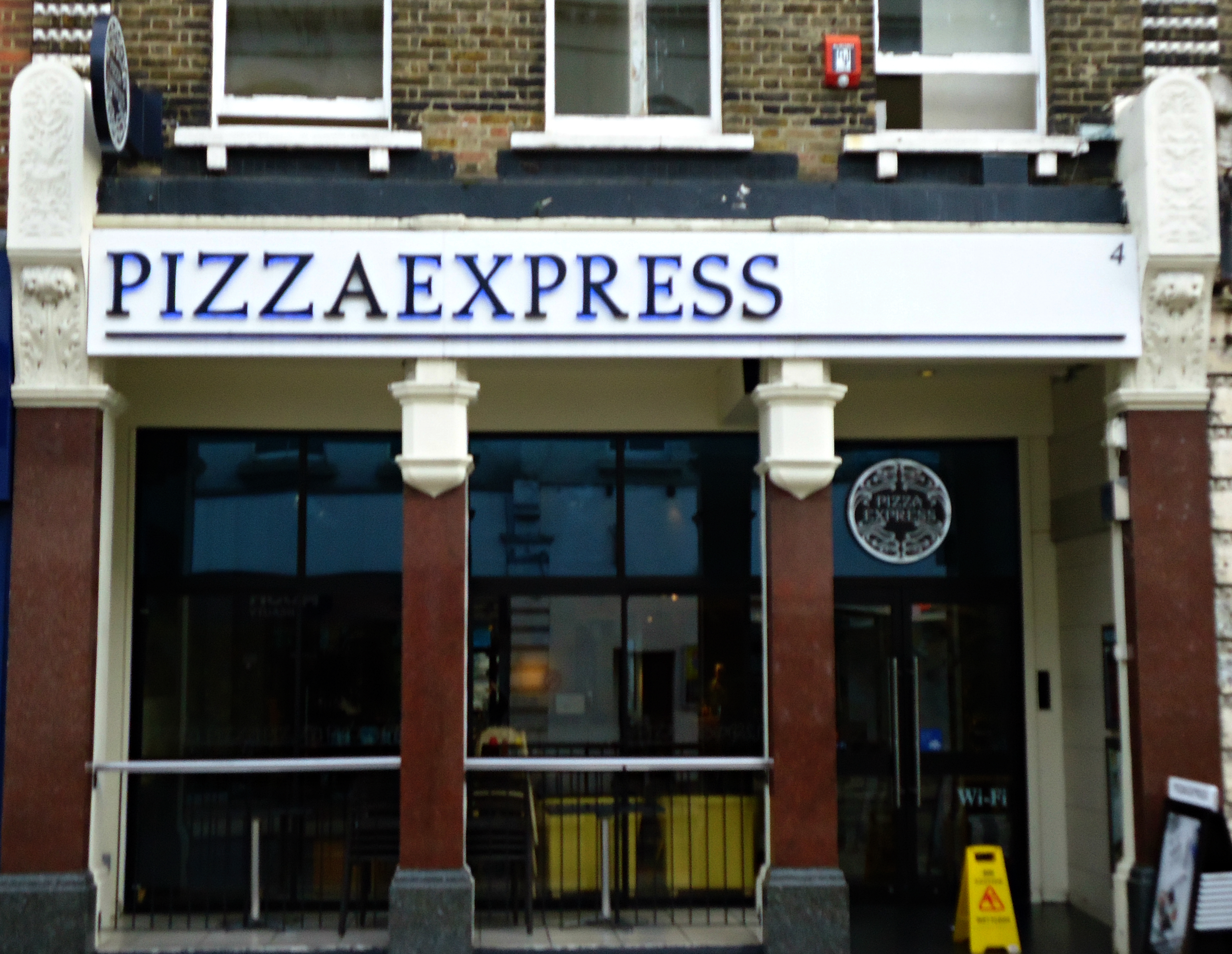 Sutton's branch of the pizzeria used to be a bank and won an architectural award. Note the retention of the twin marble pillars in front of the window.